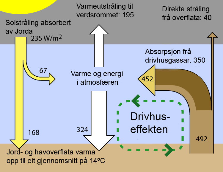 Greenhouse effect translated to nynorsk